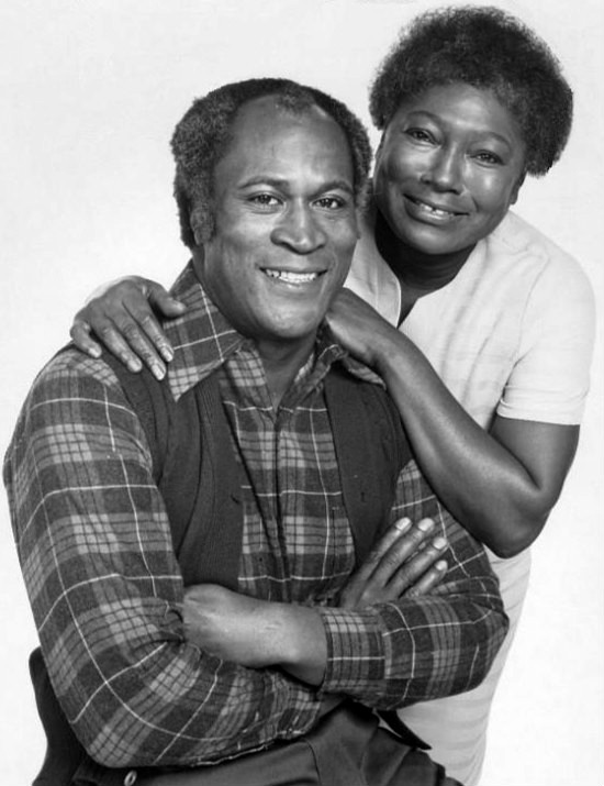 Publicity photo from Good Times. Pictured are John Amos (James) and Esther Rolle (Florida). This was for the premiere of the show.